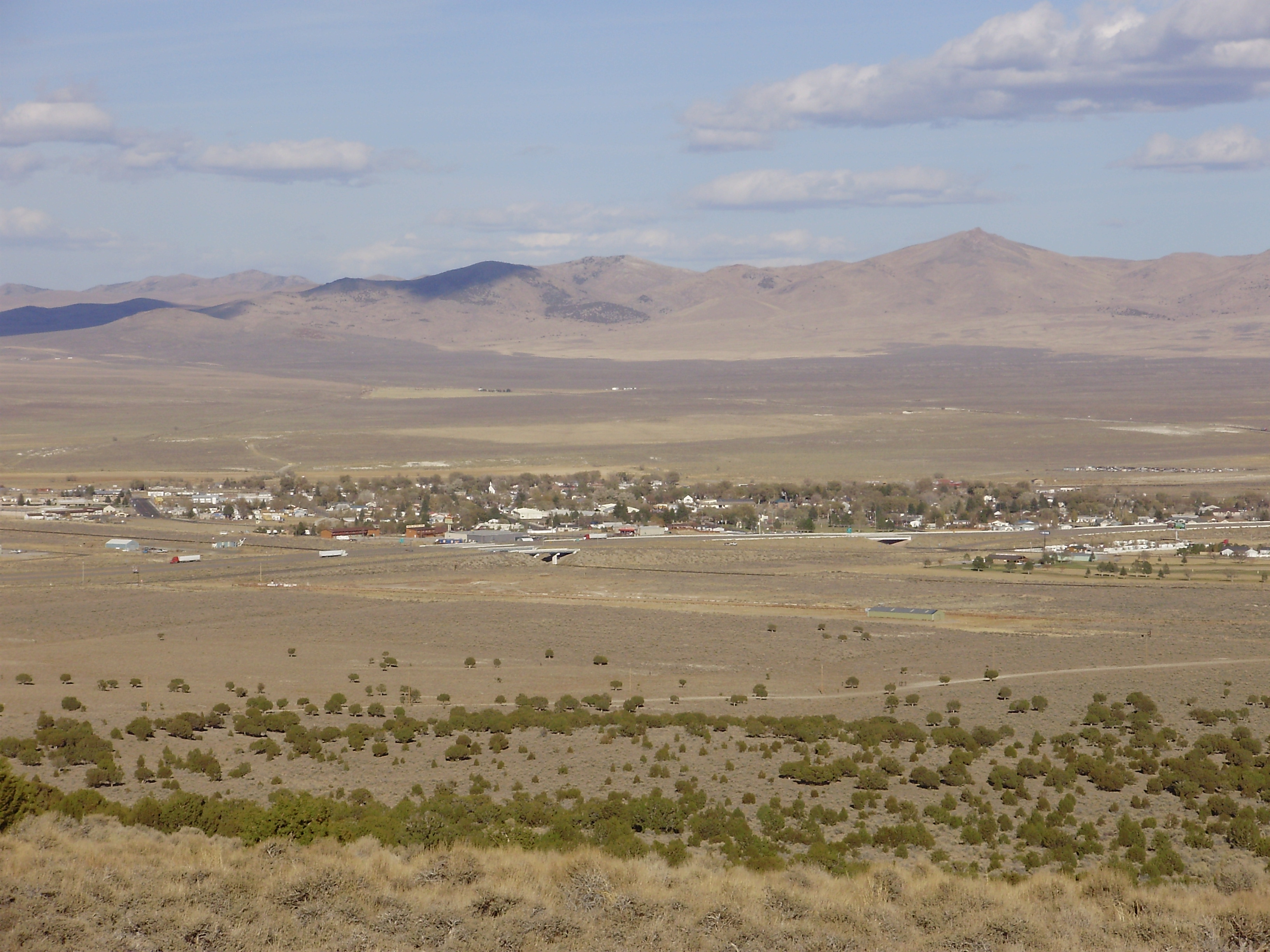 View of Wells, Nevada from Angel Lake Road (Nevada State Route 231)